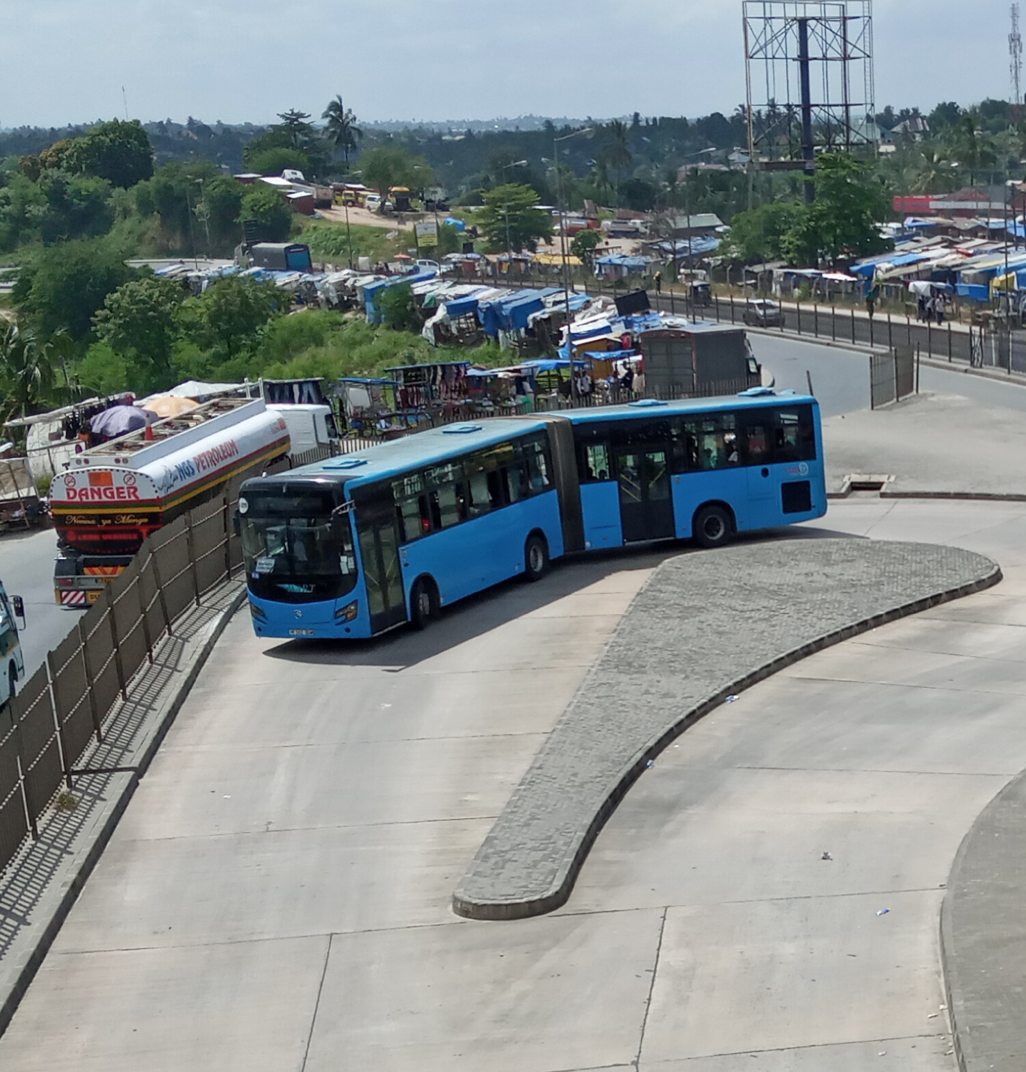 This is an image with the theme "Africa on the Move or Transport" from: Tanzania